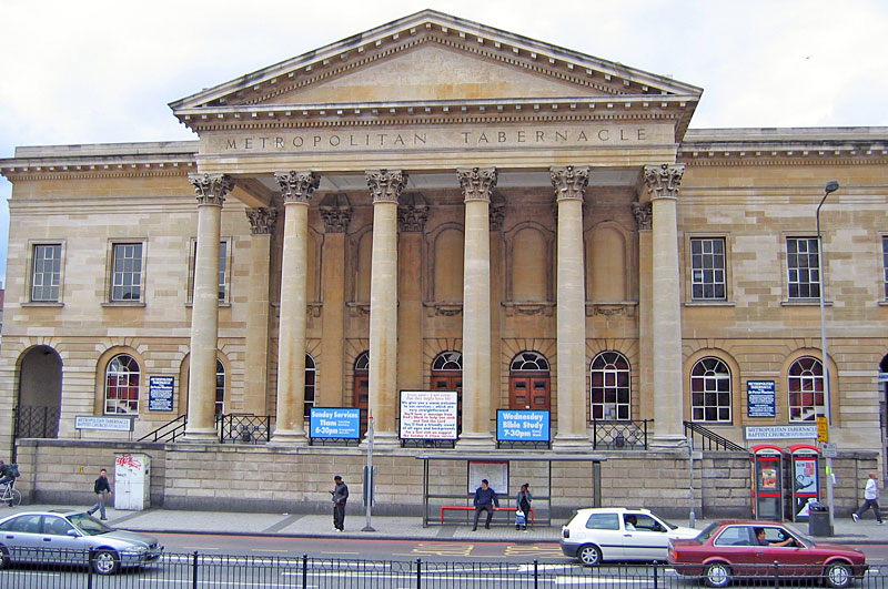 Better image of Metropolitan Tabernacle taken by C Ford, 18th July 2004.